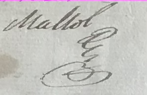 Firma del Alcalde Mayor de Tegucigalpa Narciso Mallol tomada de un documento colonial del Archivo Nacional de Honduras